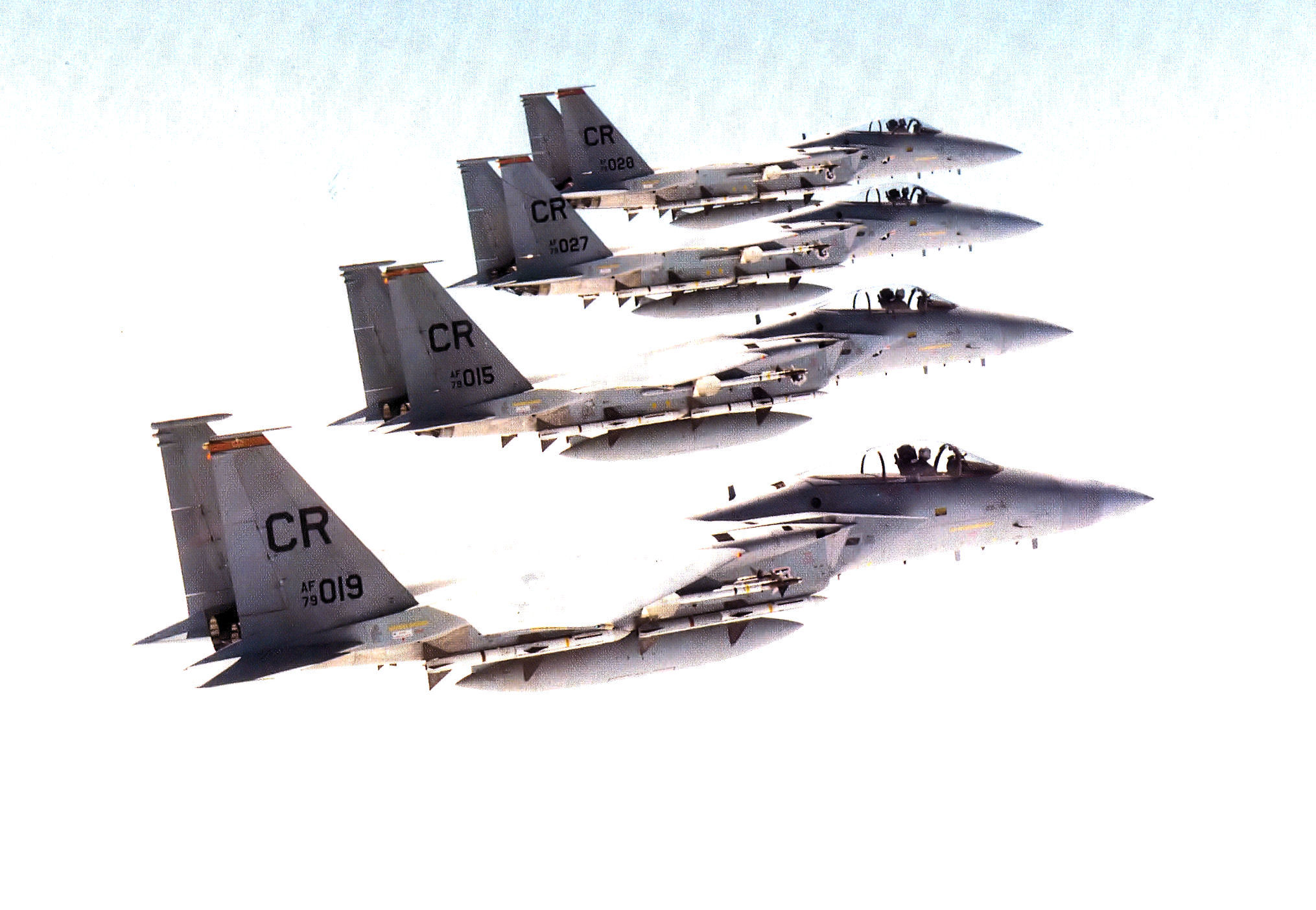 32d Tactical Fighter Squadron F-15Cs Soesterberg AB